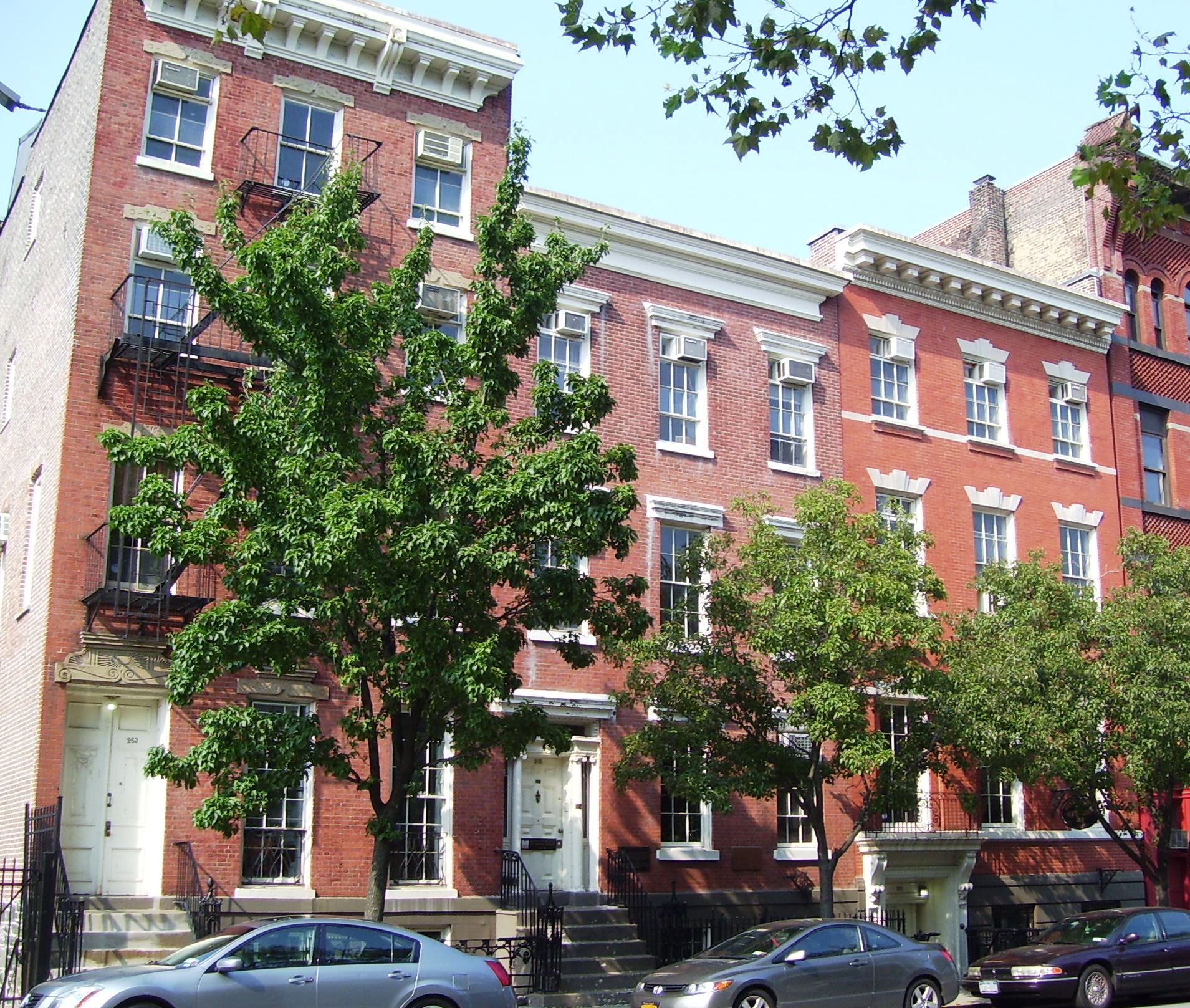 263-267 Henry Street between Montgomery and Grand Streets in the Lower East Side of Manhattan, New York City are part of the Henry Street Settlement. The settlement was founded in 1893 by Lillian Wald as the Nurses' Settlement, and in 1895 Jacob Schiff bought 265 Henry Street for the organization's use, and gave it to them in 1903. In 1906, the Settlement expanded into the Greek Revival townhouse next door at #267, which had a Colonial Revival facade by Buchman & Fox; the new building was a gift from Morris Loeb. In 1938, the settlement began leasing #263, and purchased it in 1949. #263 was restored in 1989 and #265 in 1992. (Source: Guide to NYC Landmarks (4th ed.))